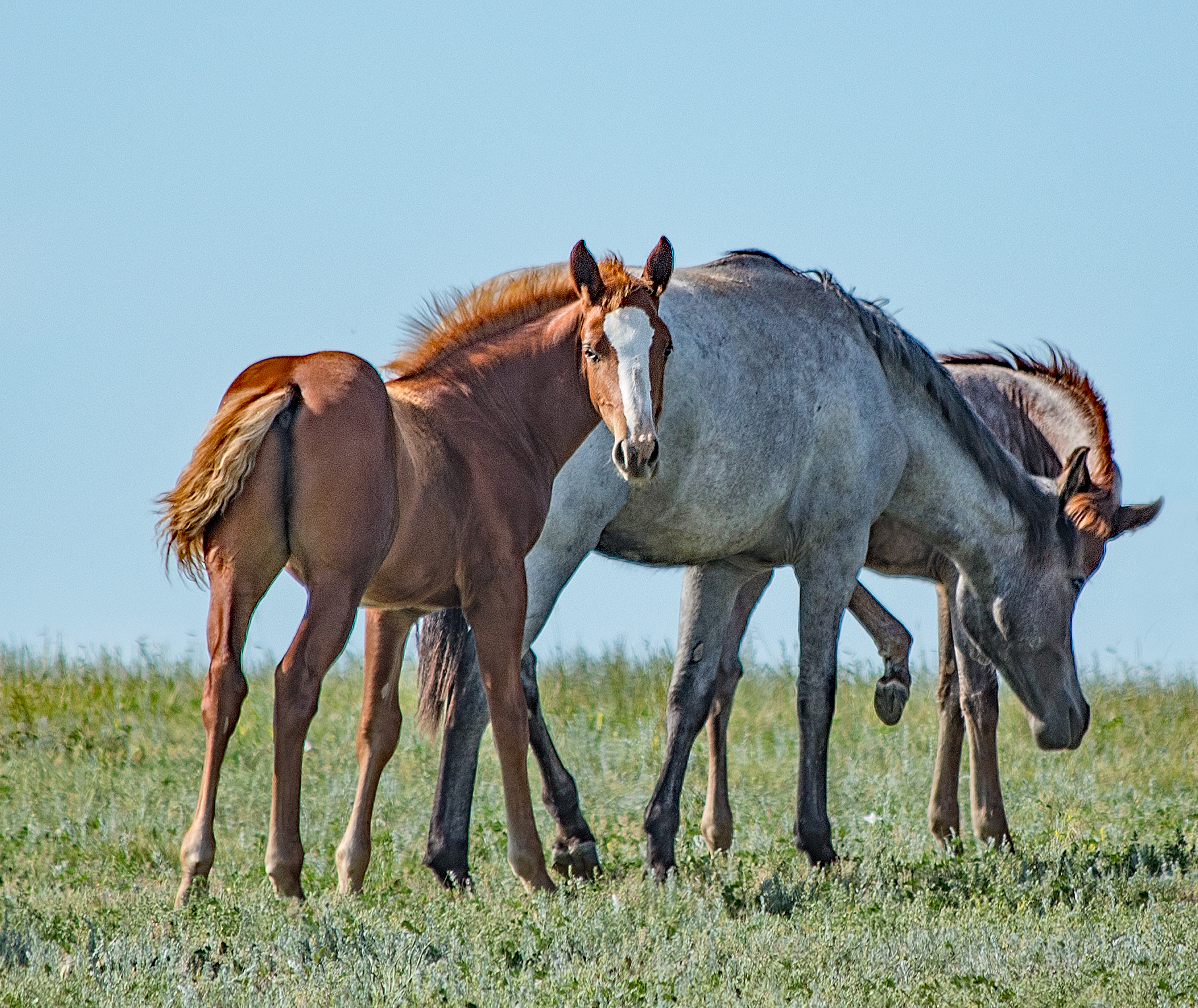 Wild horses, Theodore Roosevelt National Park, North Dakota, USA